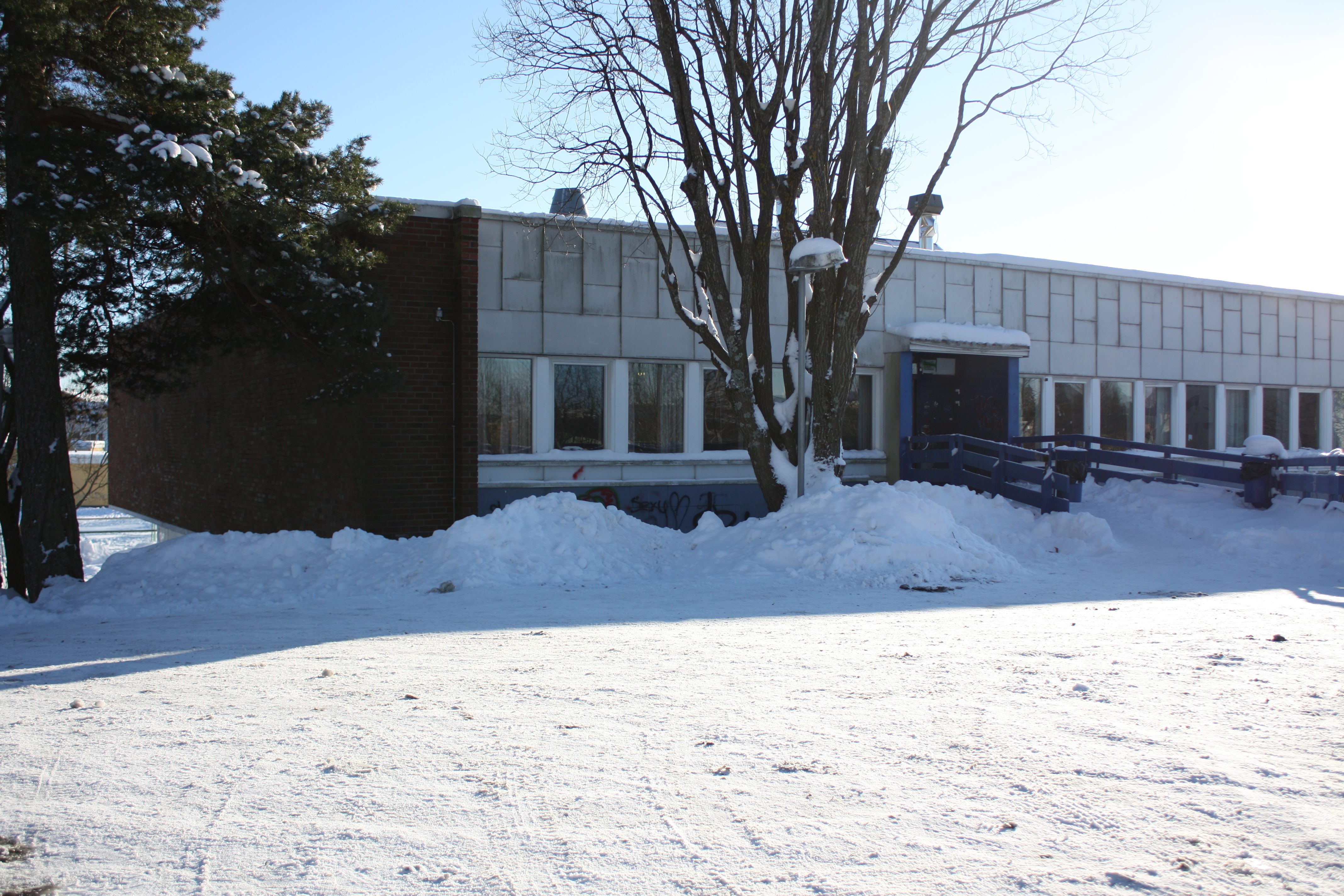 Image of Lambertseter Klubb